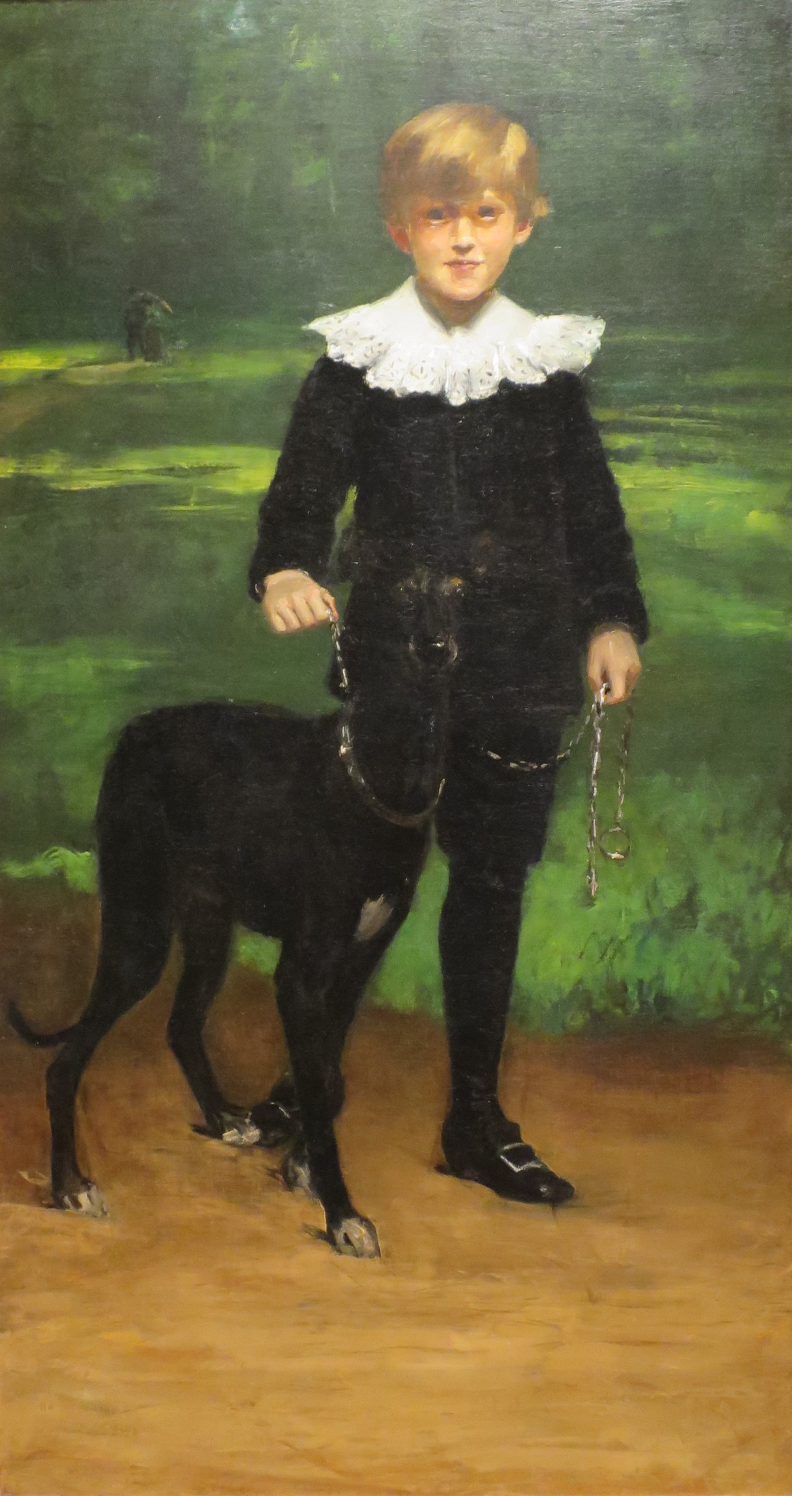 Boy with a Dog, oil on canvas, High Museum of Art, Atlanta. The boy's outfit is similar to a Fauntleroy suit.